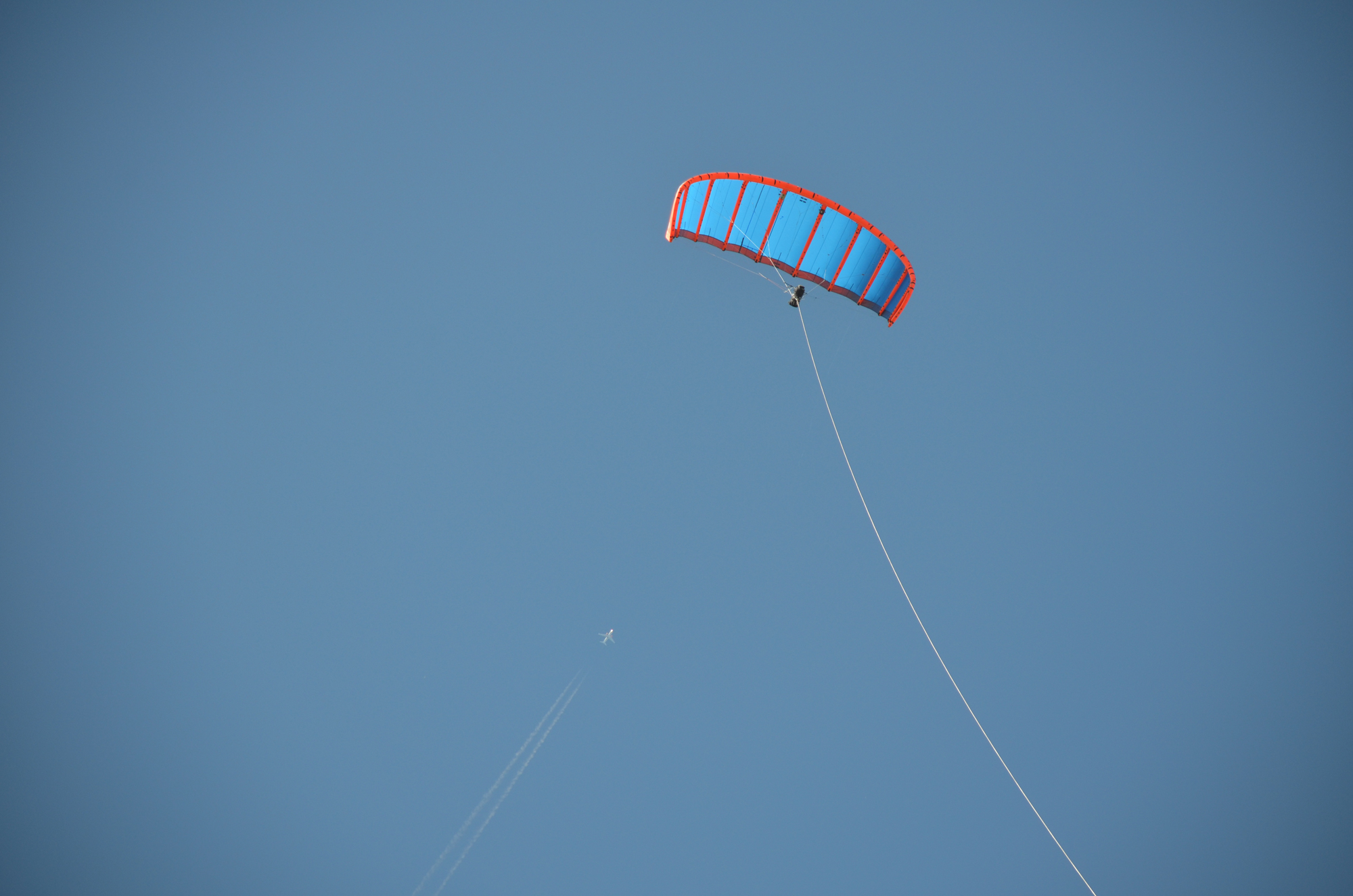 40 m2 Leading Edge Inflatable tube kite of Kitepower BV in flight at the former naval airbase Valkenburg, close to Leiden, the Netherlands